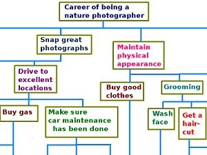 Diagram of a hierarchy of purposes. The idea is that a person should organize less important activities in a way to support a larger goal. In this example, activities such as buying gas and clothes are necessary steps for the larger (more important) goal of being a nature photographer. Source of diagram: here (see public domain declaration at top). Questions: write me at my Wikipedia talk page or email me at